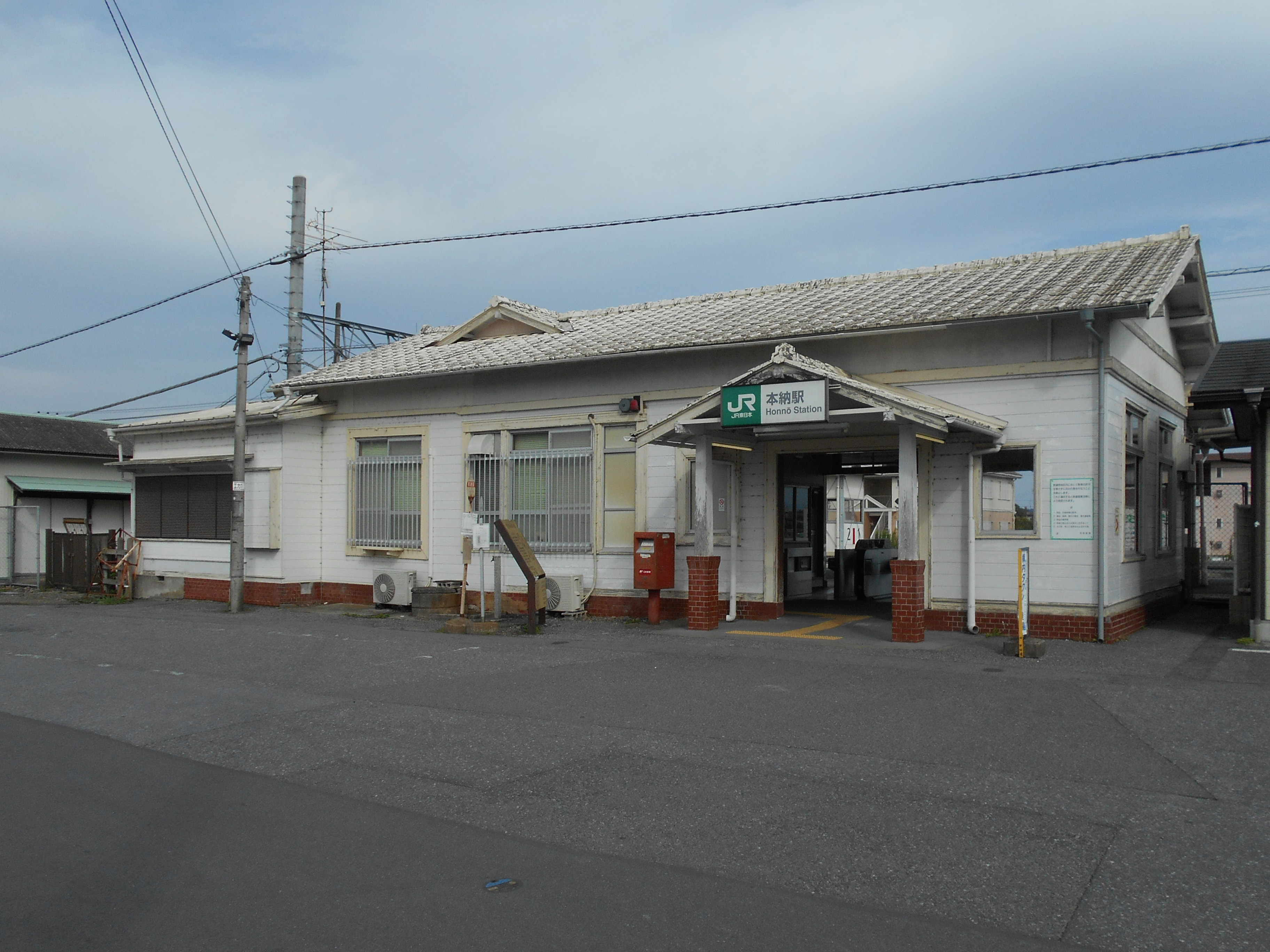 Honno Station on the Sotobo Line in Chiba Prefecture, Japan